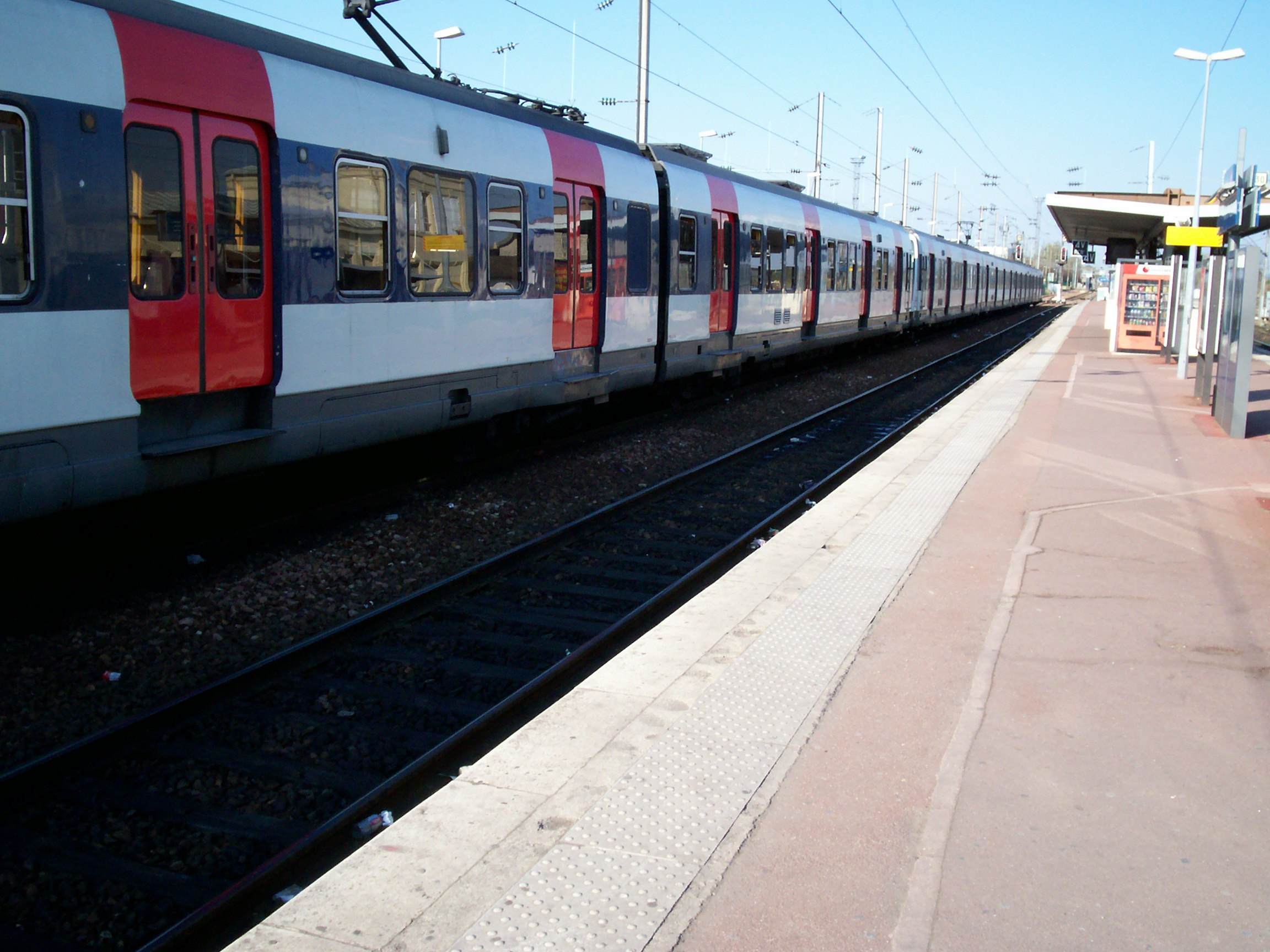 Gare de Mitry - Claye